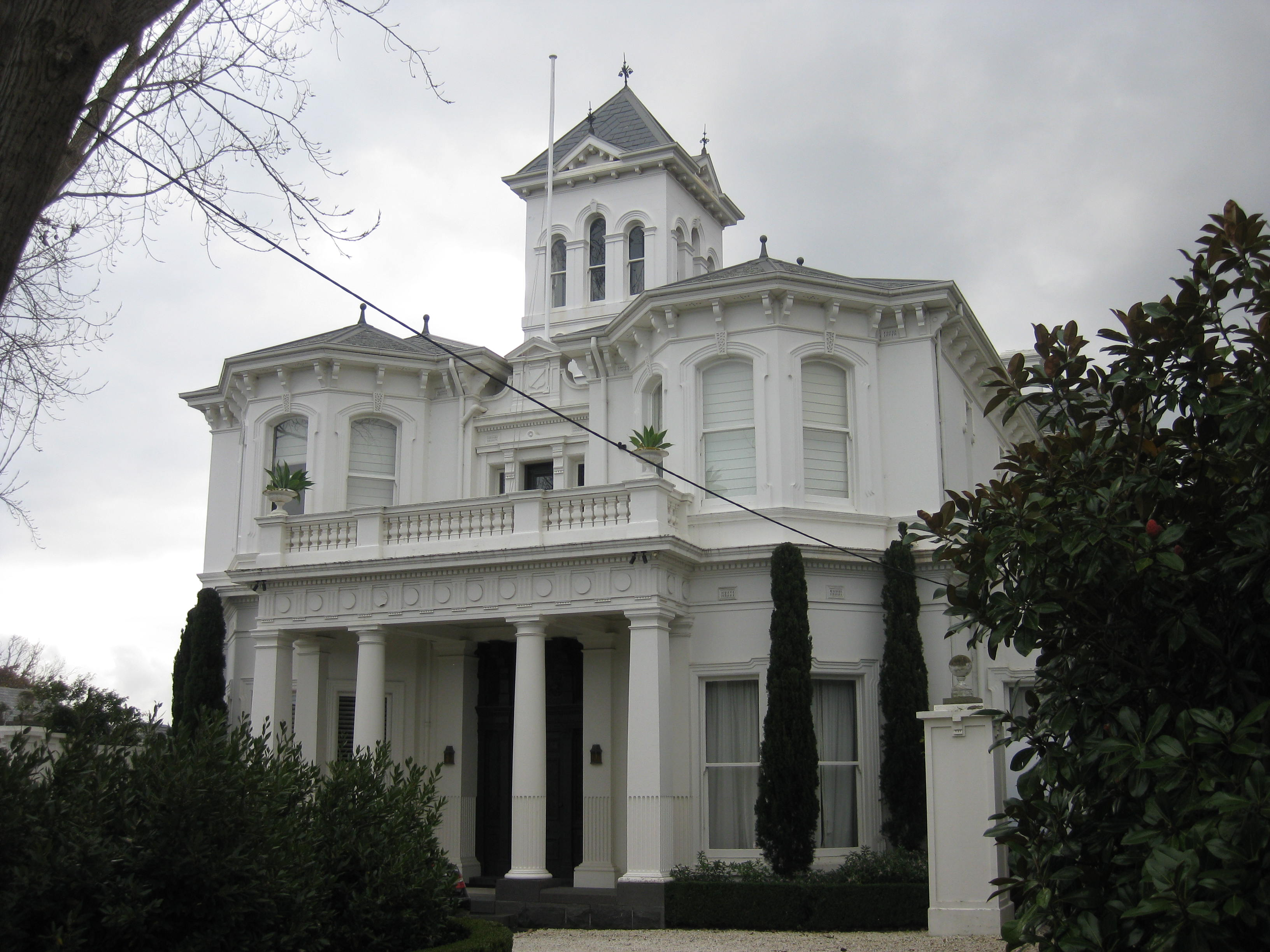 Chastleton House at 17 Chastleton Avenue, Toorak, Melbourne, Victoria, is a significant two-storey Italianate mansion.